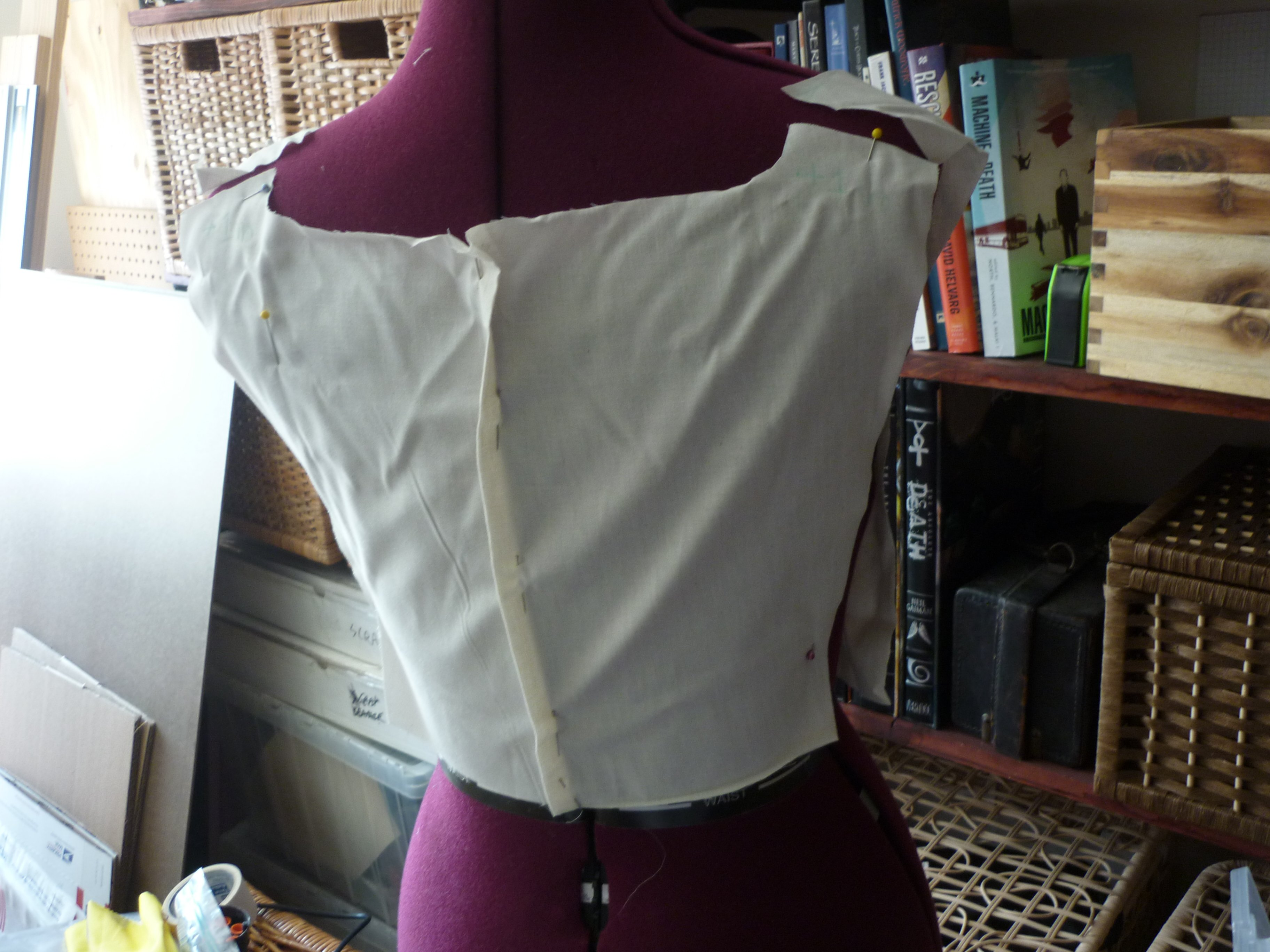 Fitting a muslin on a dressmaker's dummy. The mannequin has been adjusted to match the sewer's measurements, and the muslin has been adjusted accordingly, by taking it in two inches at the back, a smaller fit than the original pattern.